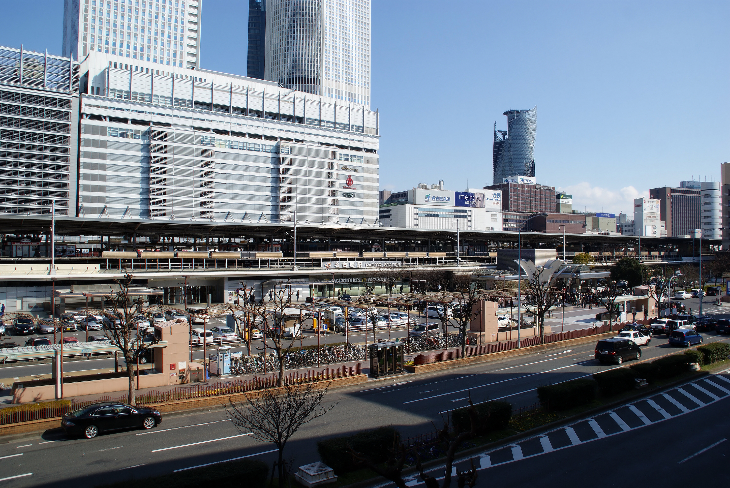 Central Japan Railway, Nagoya Station.(Nakamura Ward, Nagoya City, Aichi Prefecture, Japan)